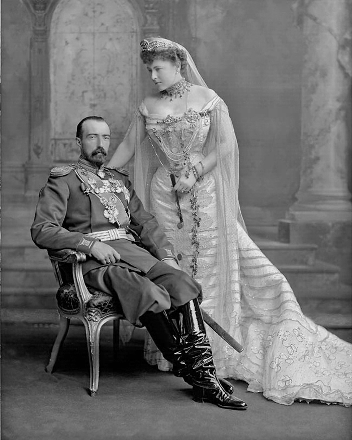 Grand Duke Michael and Countess Torbay